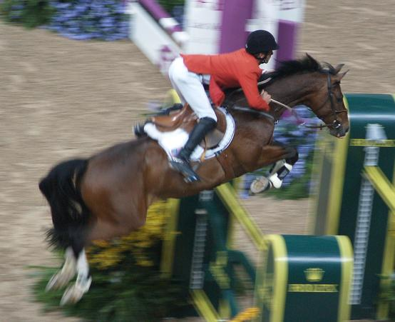 2007 FEI World Cup Show Jumping: Richard Spooner (USA) and Cristallo (1998 Holsteiner gelding by Caletto II)